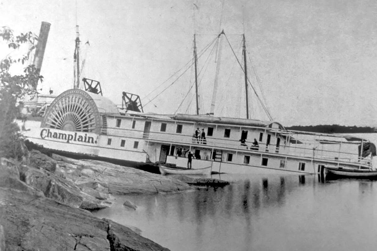 Champlain II aground with visiting spectators, 1875 Lake Champlain Maritime Museum The Burlington Free Press, Burlington, Vermont, 22 Jul 1875, Thu. Page 3 "We have received from E. M. Johnson, photographer, of Crown Point, four stereoscopic views of the wreck of the Champlain, taken from different points of view, and giving a clear idea of the locality and condition of the wreck. Mr. Johnson is doubtless prepared to supply them to the public".